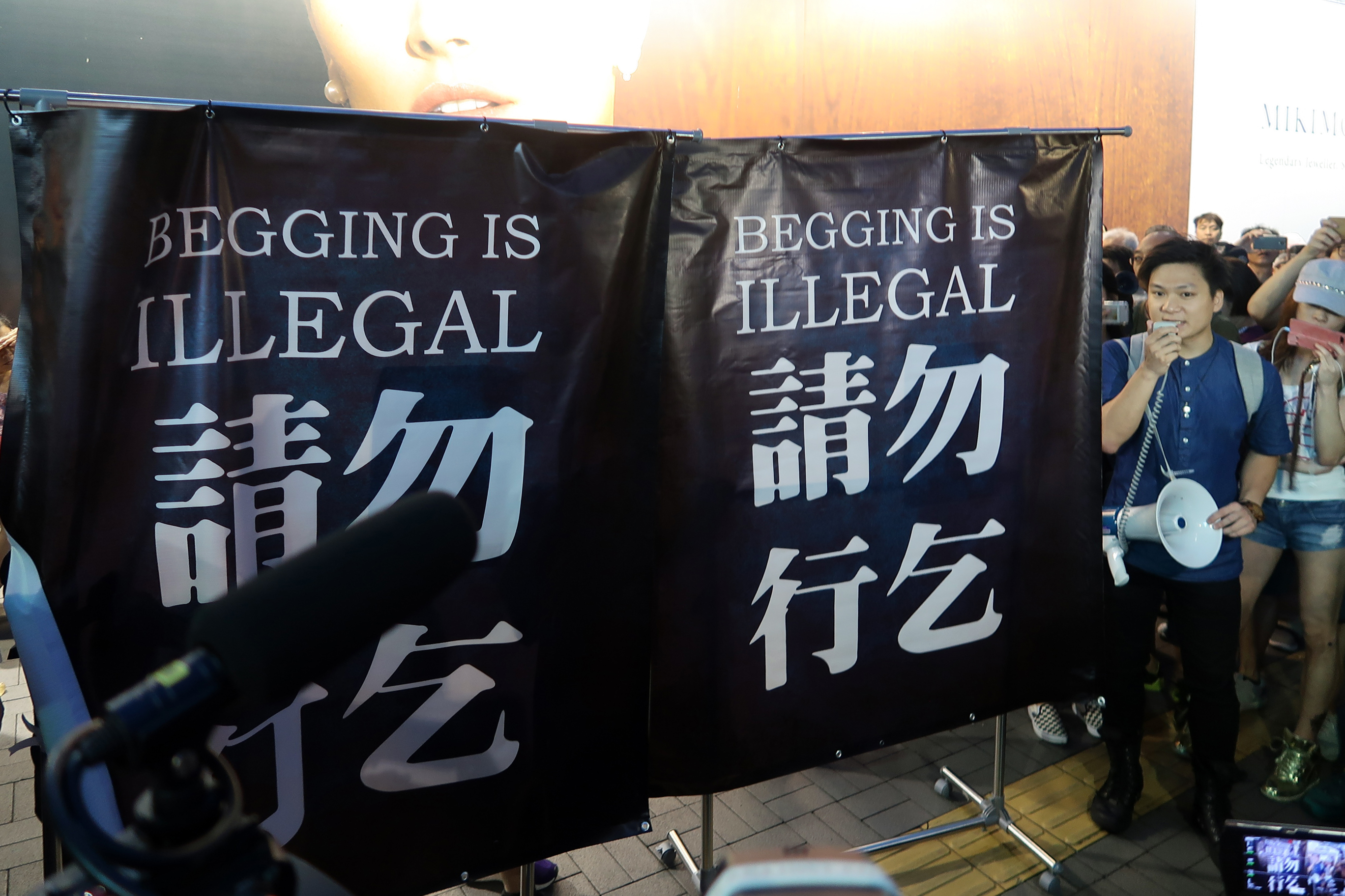 TST Star Ferry Protest